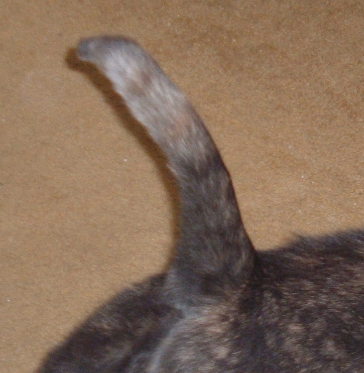 Tail of a house cat named Emily Daggerpaws. One of a series of common objects I photographed in the summer of 2005 to illustrate Basic English picture wordlist. --agr 21:08, 3 August 2005 (UTC)